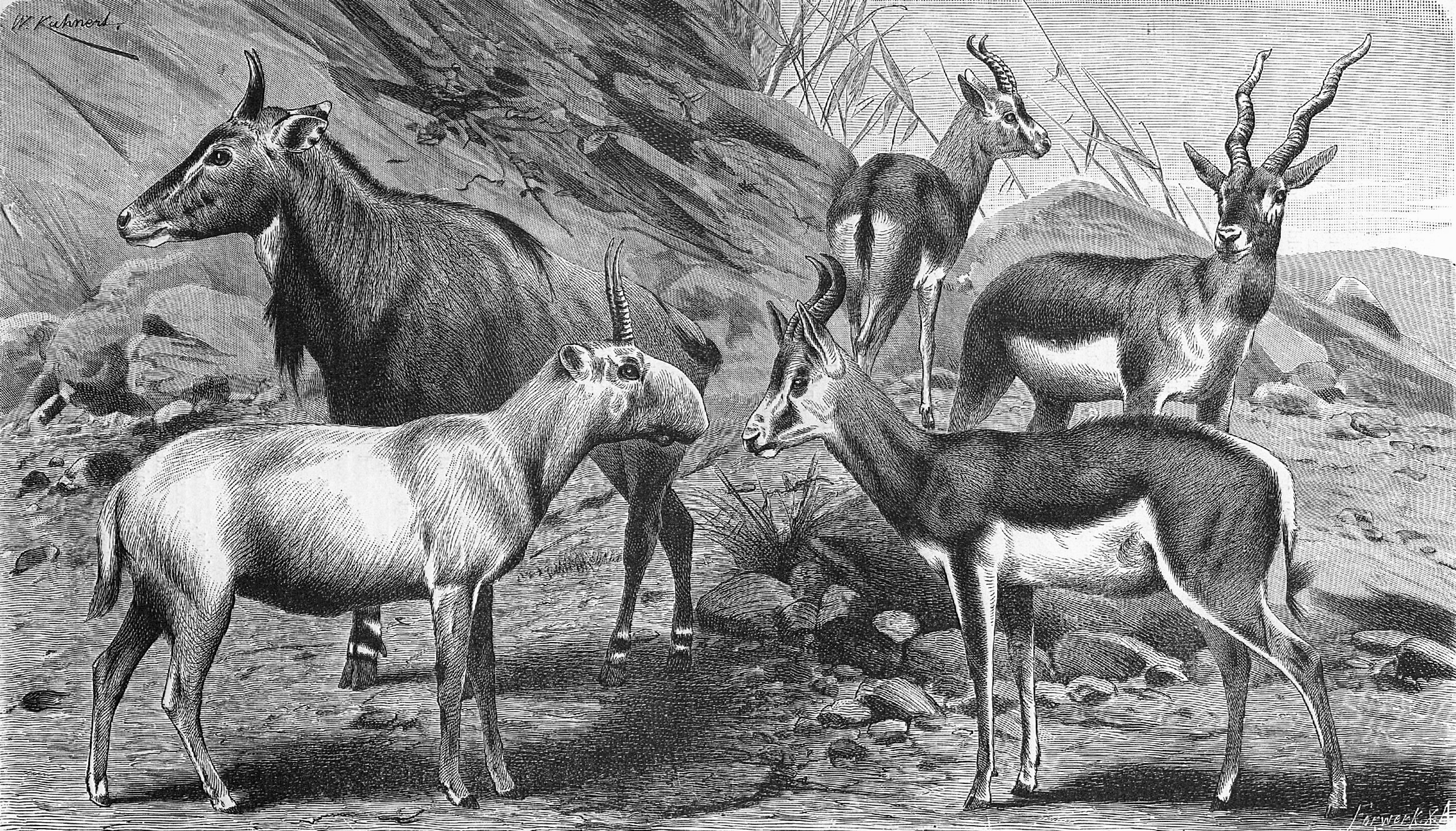 Antilopes 1. Gasell, Gazella dorcas. (top middle) 2. Springbock, Antidorcas marsupialis. (bottom right) 3. Besoarantilop, Antilope cervicapra. (top right) 4. Nilgau, Boselaphus tragocamelus. (top left) 5. Saiga, Saiga tatarica. (bottom left)